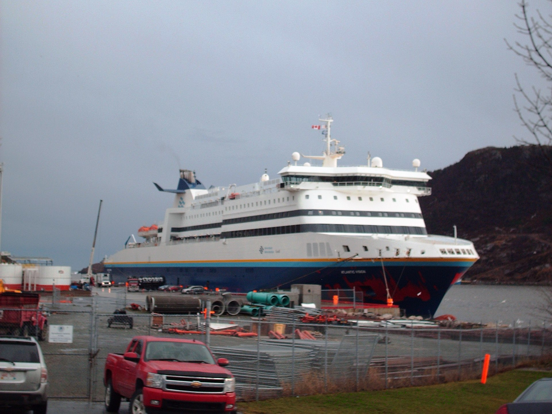 MV Atlantic Vision, Estonian ferry under charter with Marine Atlantic